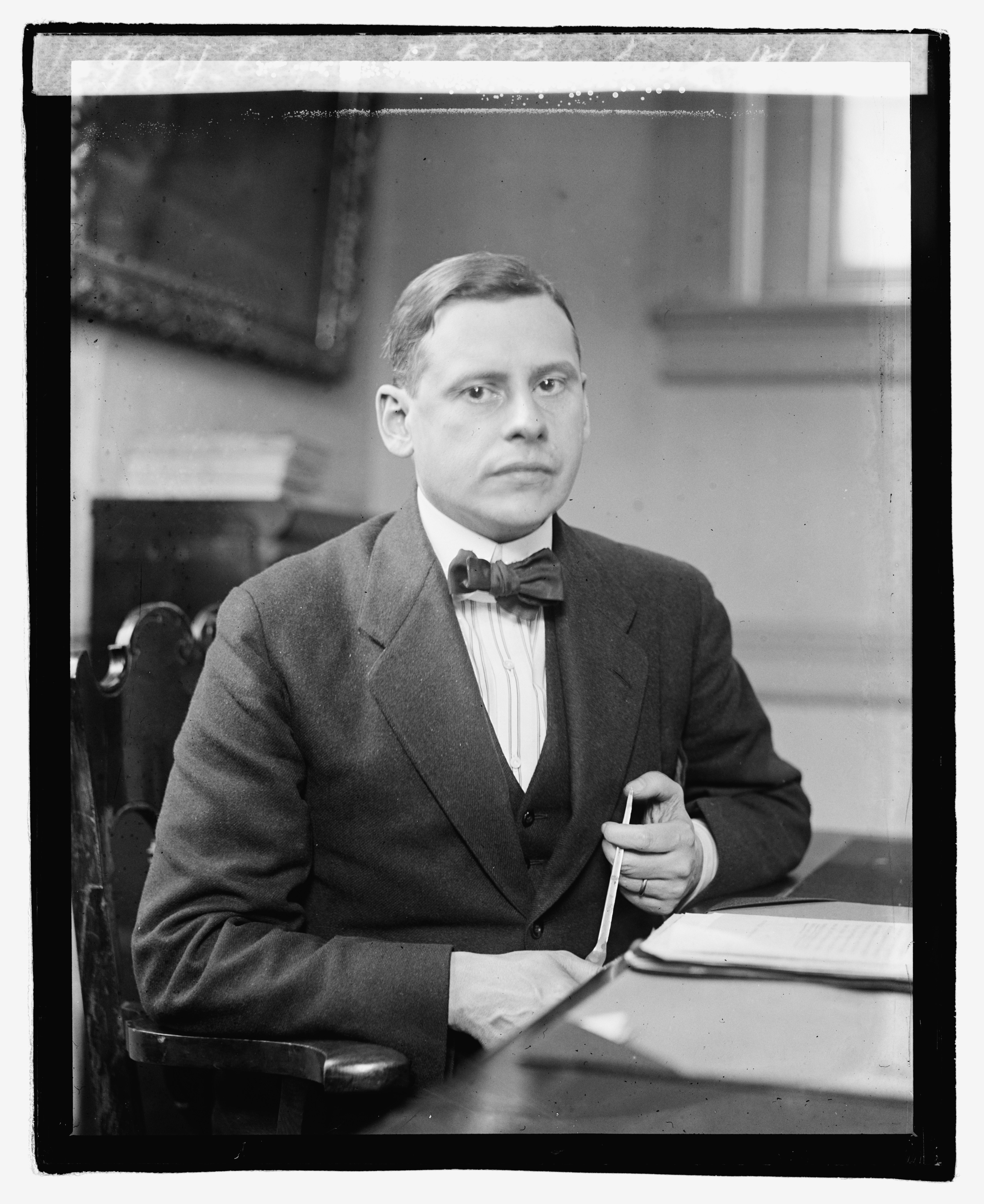 Title: Edgar A.G. Prochnik, 12/1/21 Abstract/medium: National Photo Company Collection (Library of Congress) Physical description: 1 negative